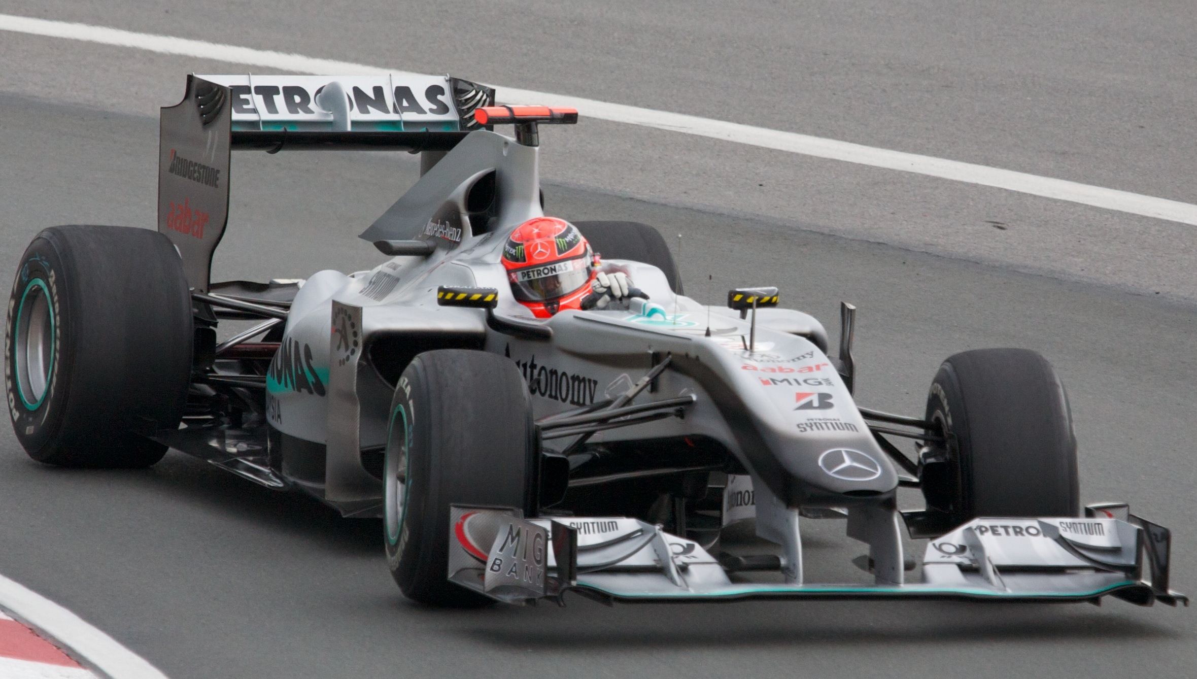 Michael takes turn 2 a bit wide.